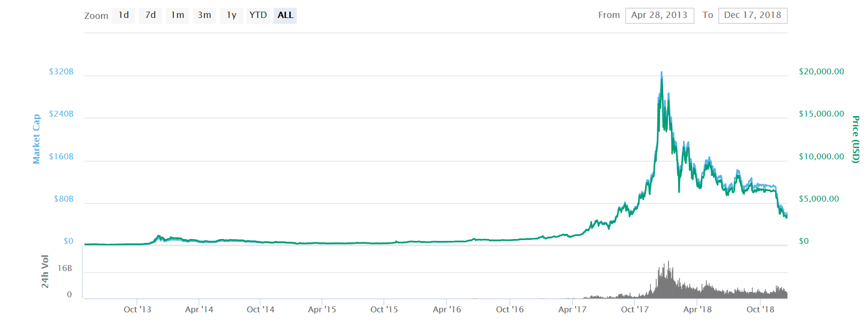 Bitcoin price chart